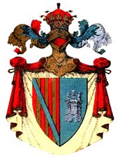 House of Paternò, Branch Paternò Castello, coat of arms, Sicily